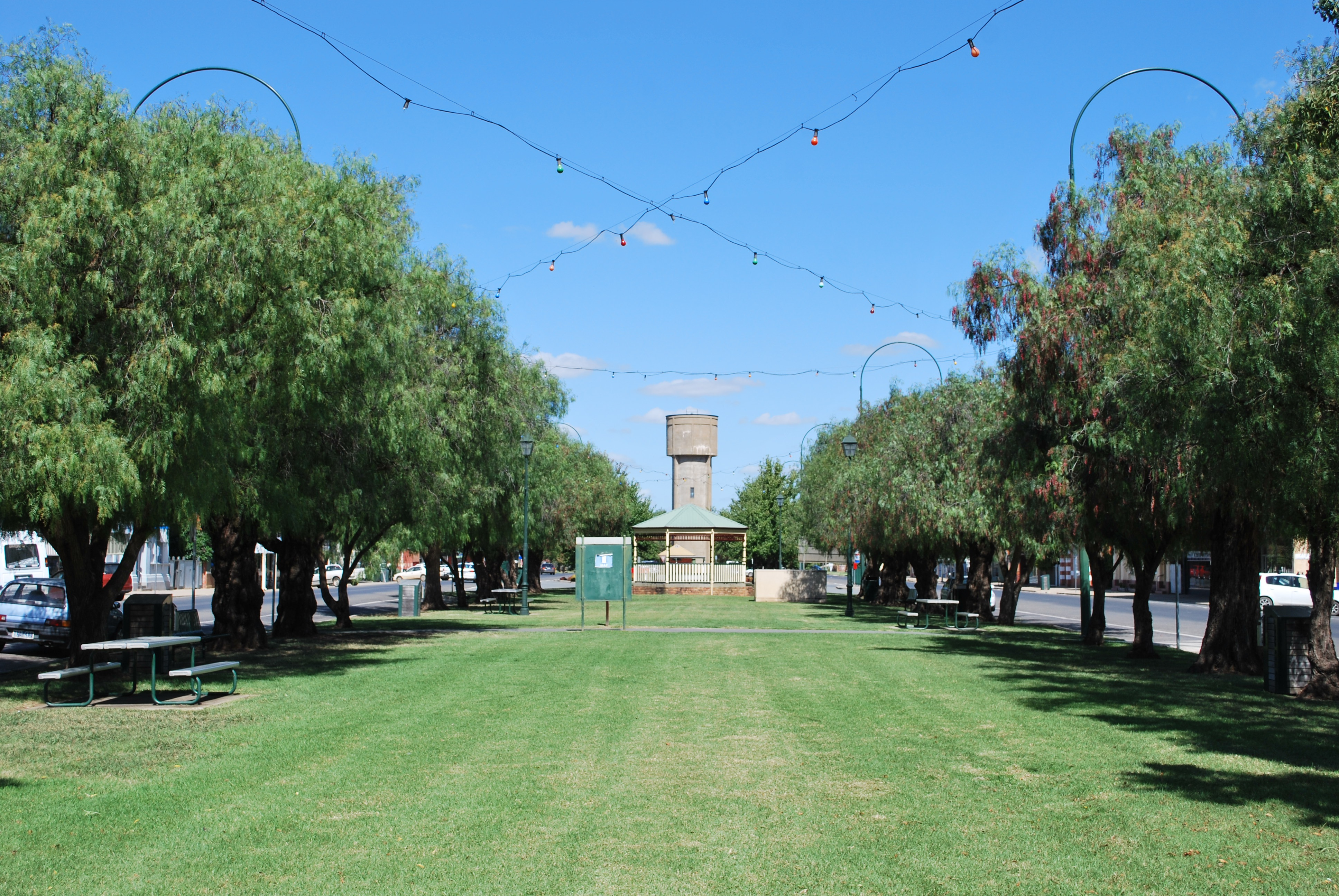 A park in the middle of Blake St (Murray Valley Highway), the main street of Nathalia, Victoria